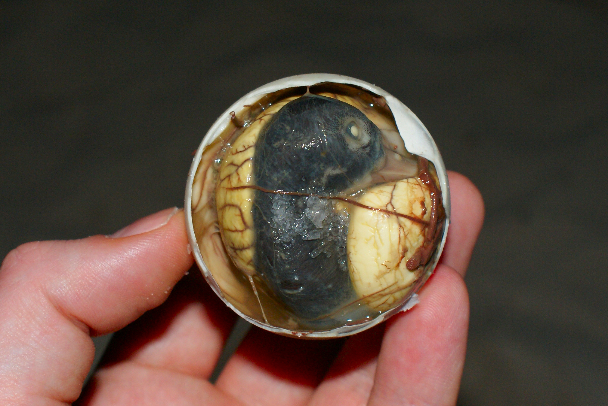 Duck balut on the Philippines. Ready to eat - already salted.